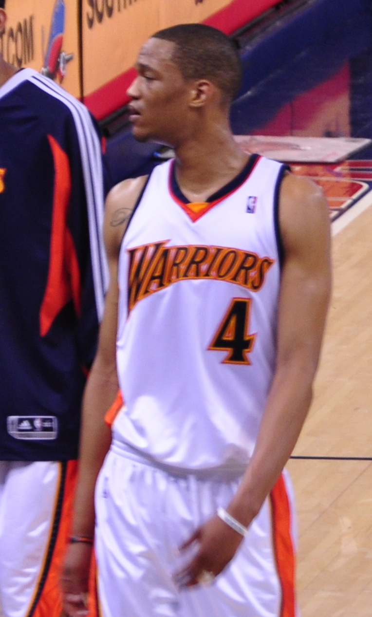 Marco Belinelli (far left), Brandan Wright, Anthony Randolph (4), Jermareo Davidson